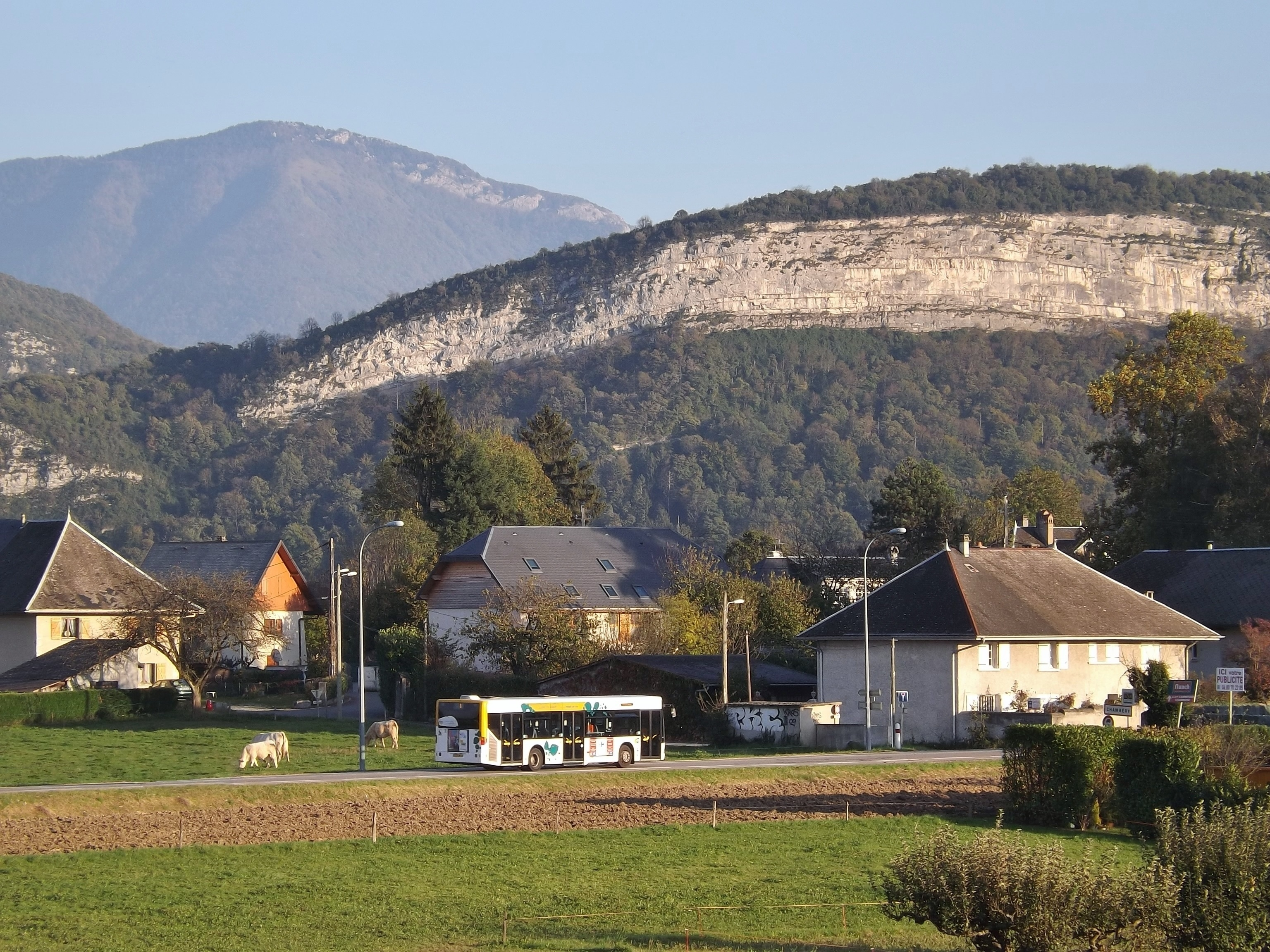 Sight of a bus from the STAC network of Chambéry agglomeration, passing at Morraz-Dessus hamlet, at the North of Chambéry in Savoie, France.